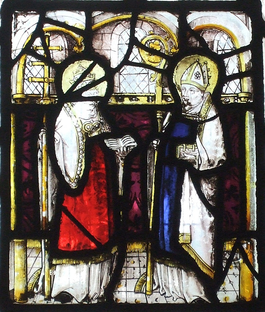 Holy Trinity - Ancient Stained Glass (2). Panel 2: Another very old example of stained glass. Like the first panel, the single block colours (though wonderfully patterned) suggest great age. The figure on the left wearing red is wearing the "triregnum" - a triple crown - and is holding a triple cross (Cf. )- both emblems of the Papacy. The figure on the right with blue tabard is wearing a mitre and carries a crozier. The image therefore is of a meeting between a Pope and a bishop - but which historical figures they may be I have no idea. Previous panel 1314893 Next panel 1314911